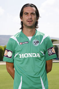 Giovanni Ruso ג'ובאני רוסו